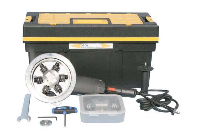 Cleaning machine "SFW-Multifräse compact 140"